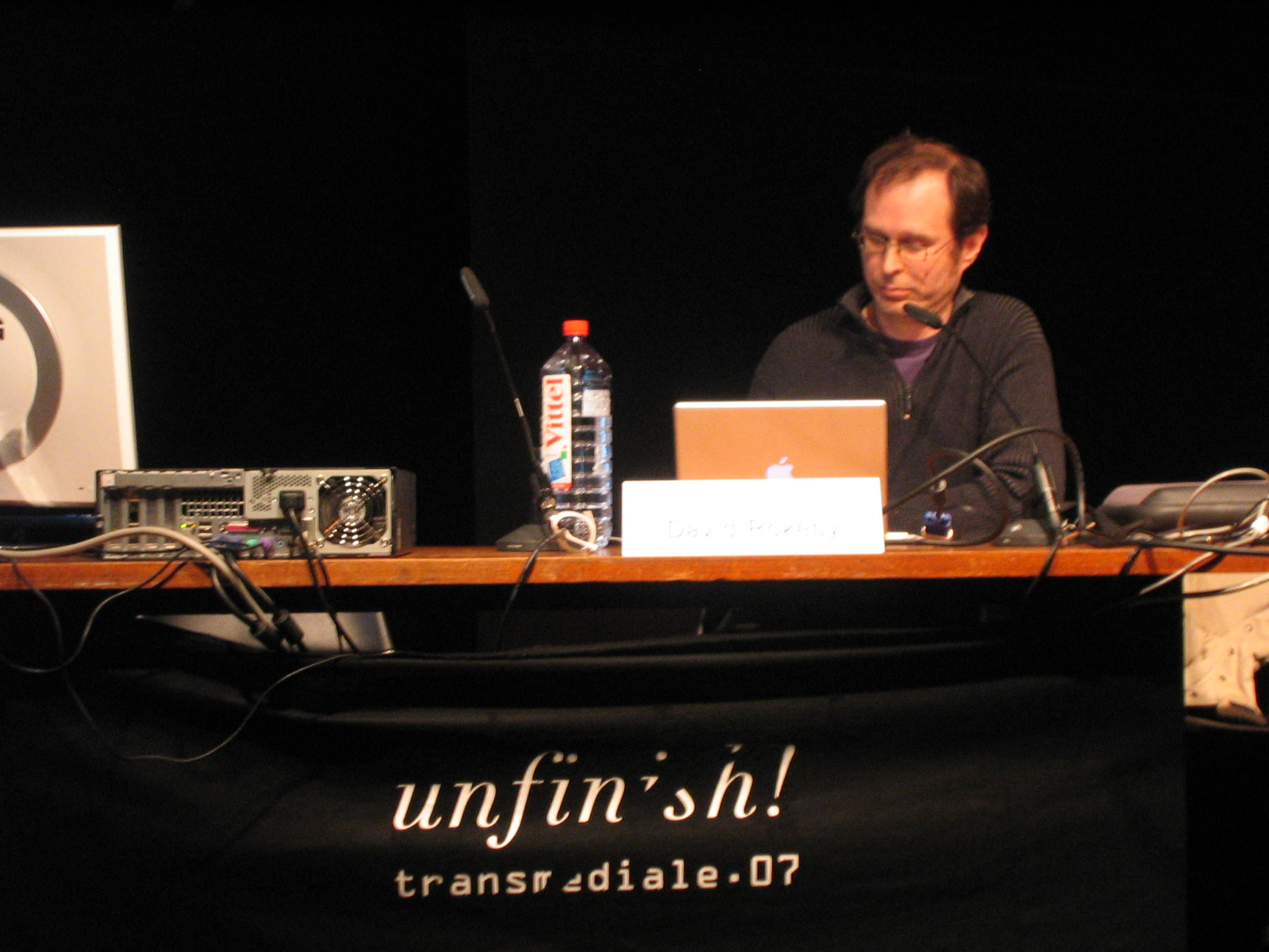 Portrait of the new media artist David Rokeby.